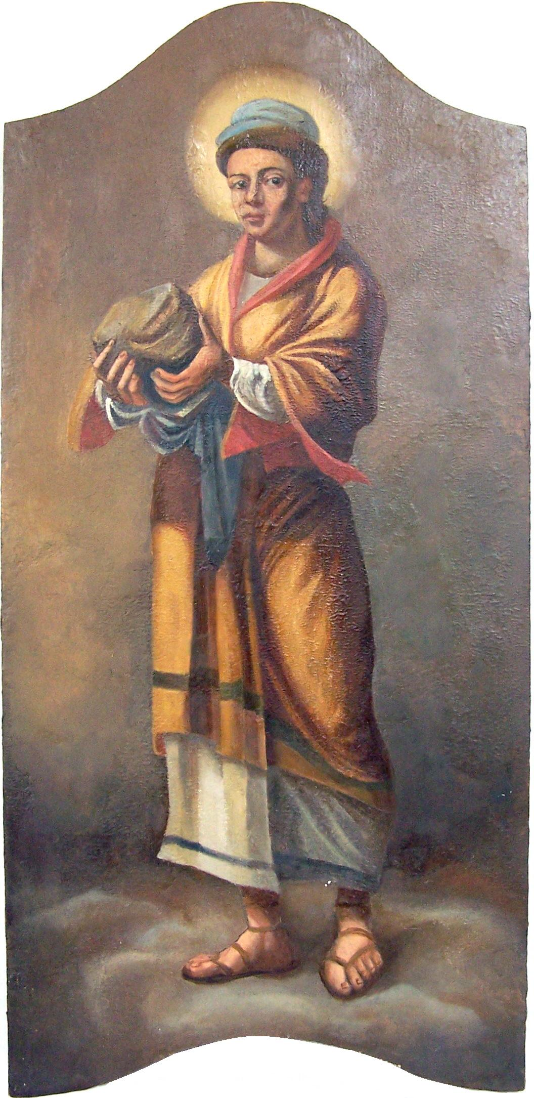 The picture is a Greek Catholic icon depicting the prophet Habakkuk with a rock in his hand. The icon was painted in the end of the 18th century as part of the iconostasis of the Greek Catholic Cathedral of Hajdúdorog, Hungary. Habakkuk's icon is placed on the third tier of the iconostasis, the so called Prophets tier. This icon is the first painting from the right.